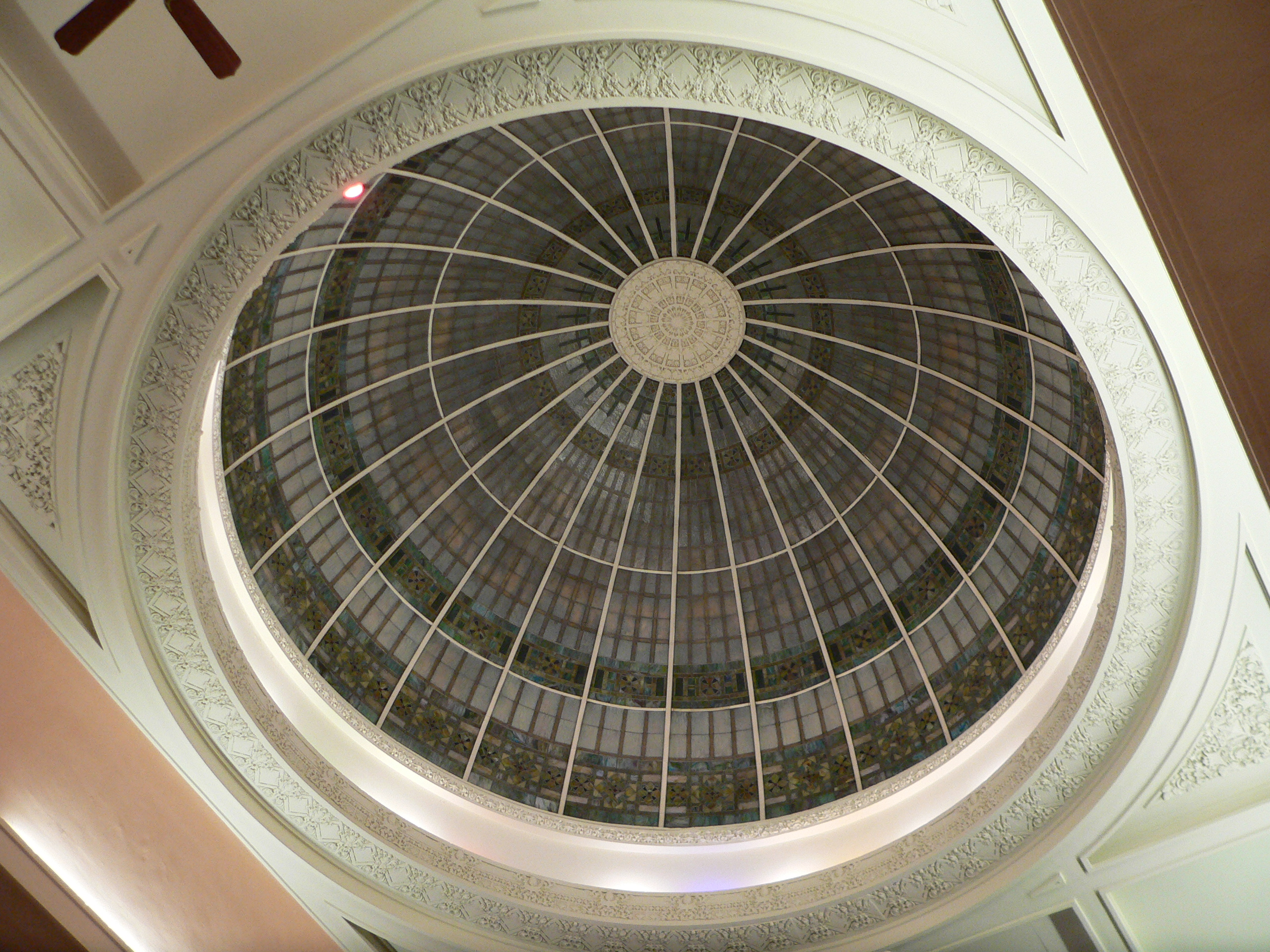 Iglesia Evangelica Pentecostes Principe de Paz, originally First Congregational Church, and later Sioux City Baptist Church; located at 1301 Nebraska Street in Sioux City, Iowa. Interior of dome.